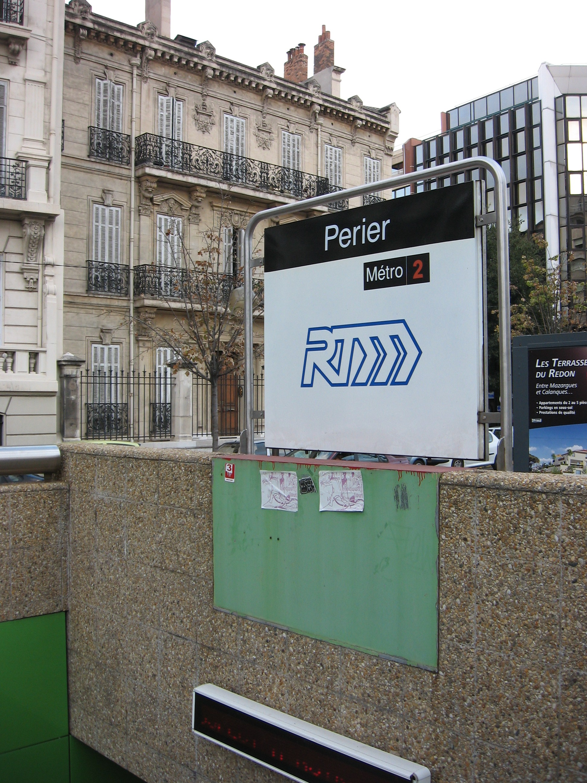 Périer